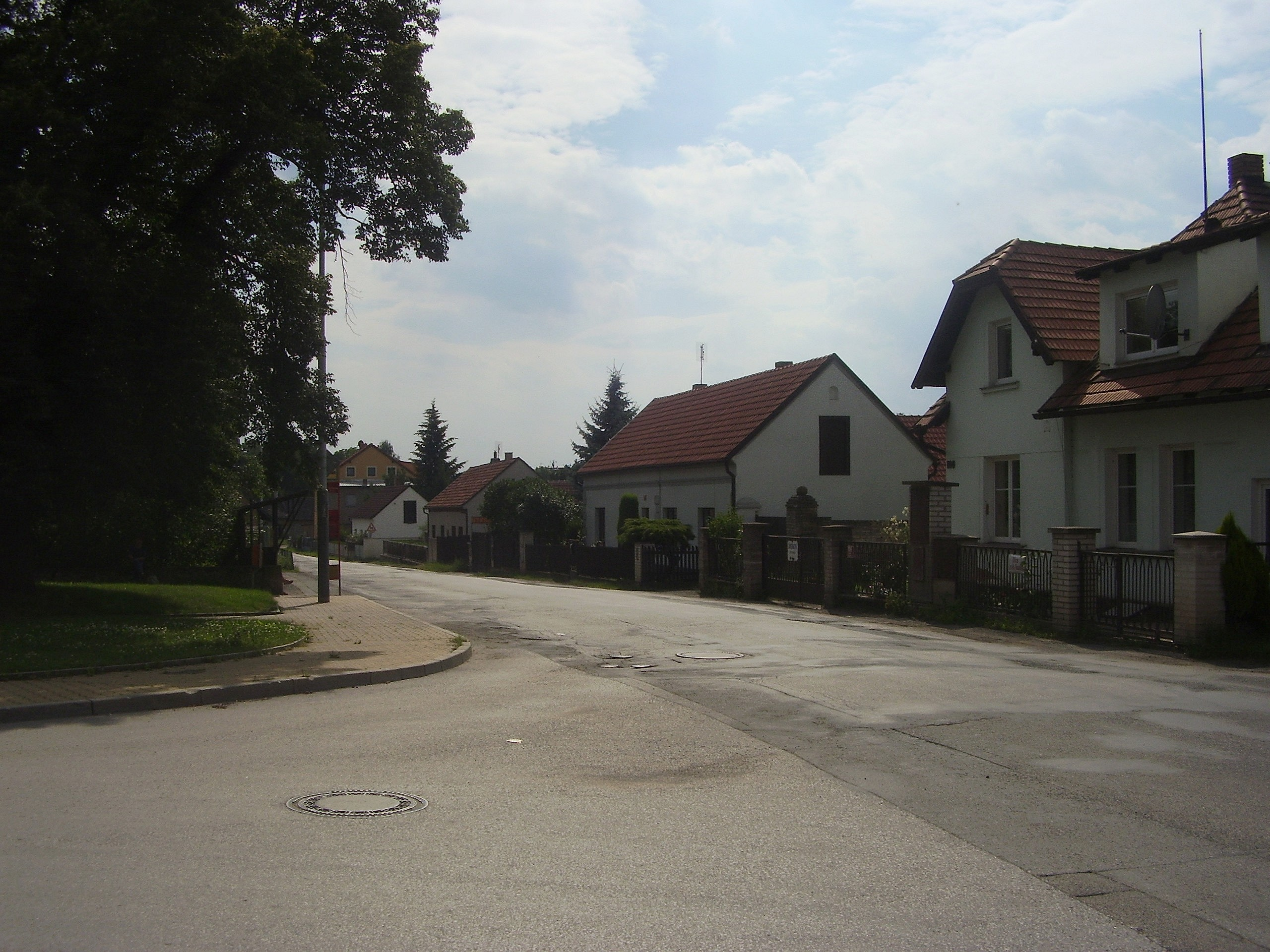 Squere U Kapličky in Lipence, Prague 16